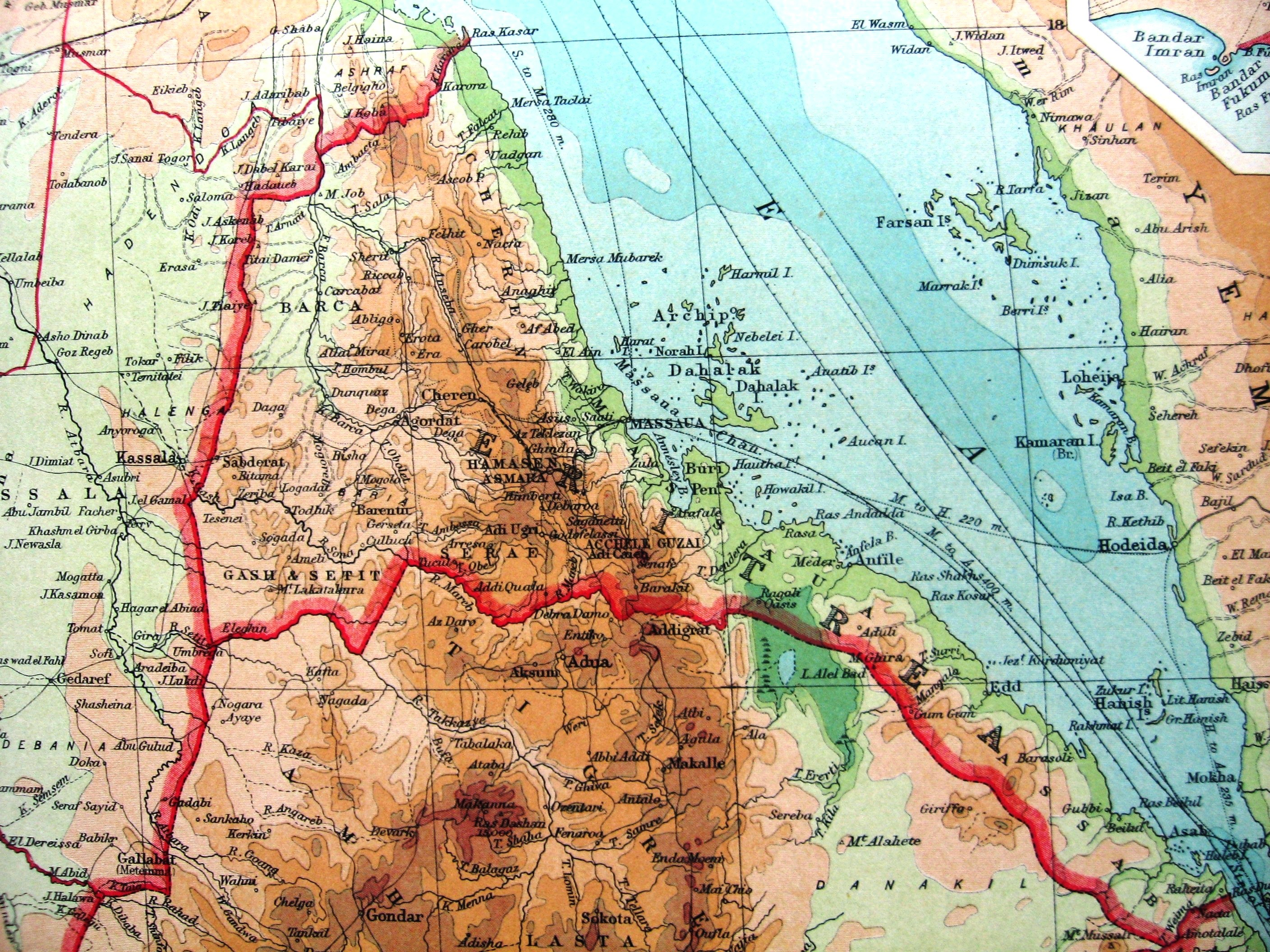 Italian Eritrea and surrounding area. Cropped from The Times Survey Atlas of the World (1922).